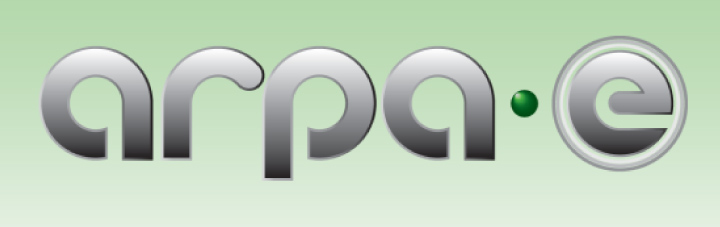 Logo of the US Advanced Research Projects Agency-Energy. It was created in 2007 without a budget, and funded in 2009.